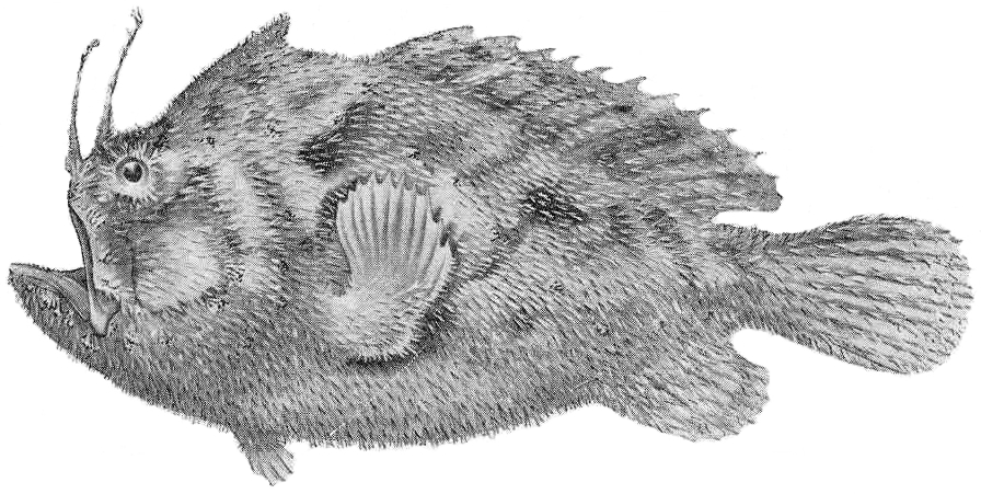 Antennariidae illustrations Subject: Antennariidae, Anglerfishes, Trichophryne Tag: Fish